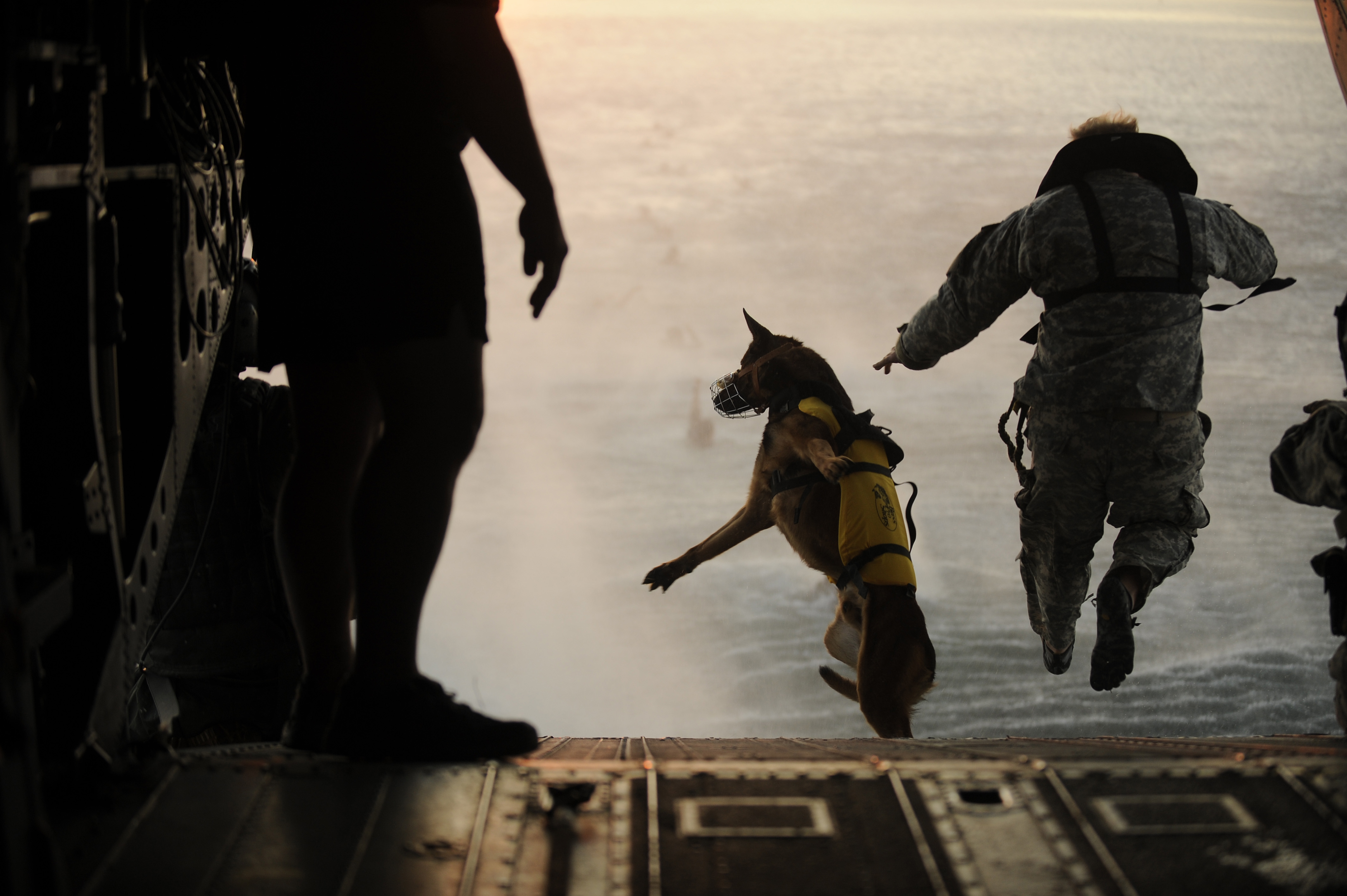 A U.S. Army soldier with the 10th Special Forces Group and his military working dog jump off the ramp of a CH-47 Chinook helicopter from the 160th Special Operations Aviation Regiment during water training over the Gulf of Mexico as part of exercise Emerald Warrior 2011 on March 1, 2011. Emerald Warrior is an annual two-week joint/combined tactical exercise sponsored by U.S. Special Operations Command designed to leverage lessons learned from operations Iraqi and Enduring Freedom to provide trained and ready forces to combatant commanders.